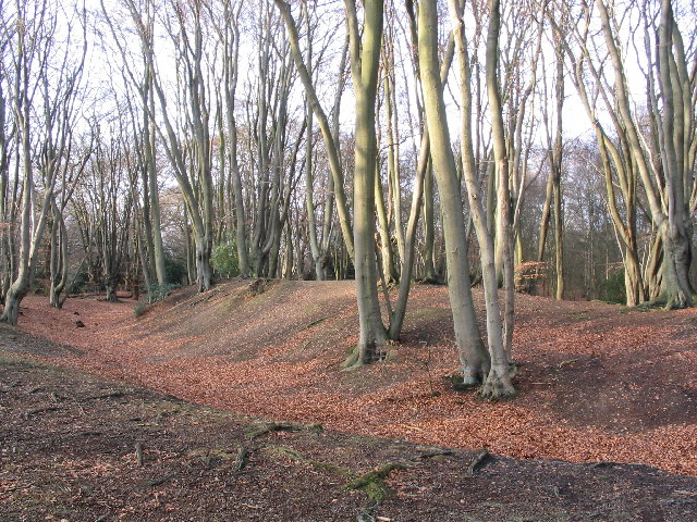 Beeches on Ambresbury Banks. Ambresbury Banks is an Iron Age hill fort, situated at one of the highest points of Epping Forest.